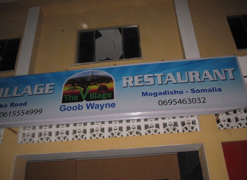 The Village restuarant in Mogadishu, Somalia.